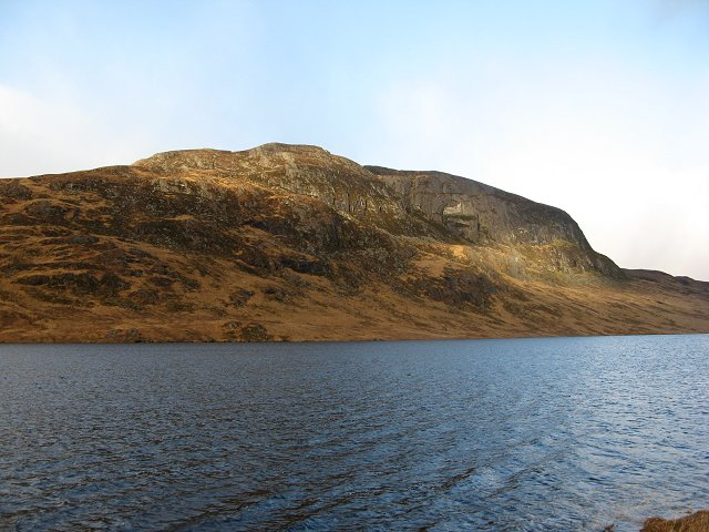 Binnein Shuas One of the two hills between Lochan na h-Earba and Loch Laggan. The main feature is the Ardverikie Wall, a big steep crag with a famous route on it, featured in Classic Rock.